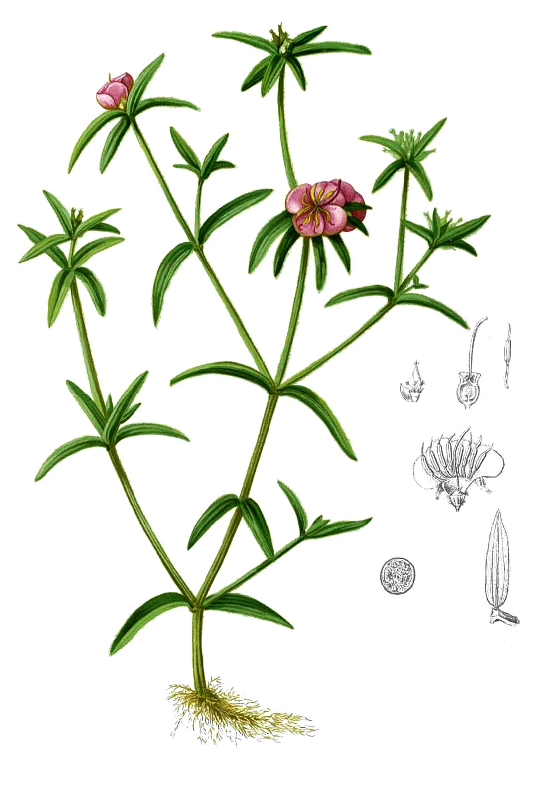 Plate from book